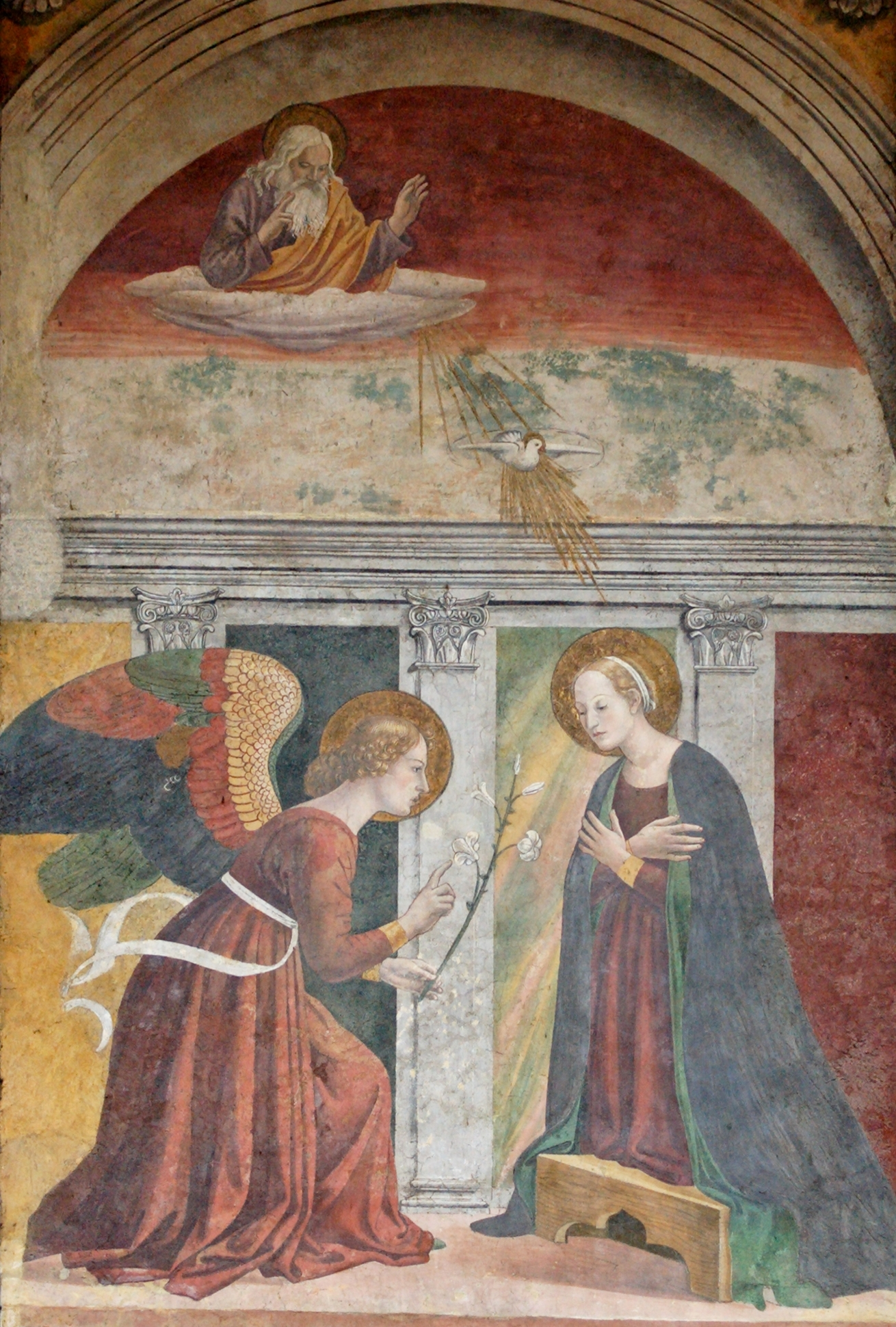 Annunciation attributed to Melozzo da Forlì (ca. 1438-1494), at the Pantheon in Rome.